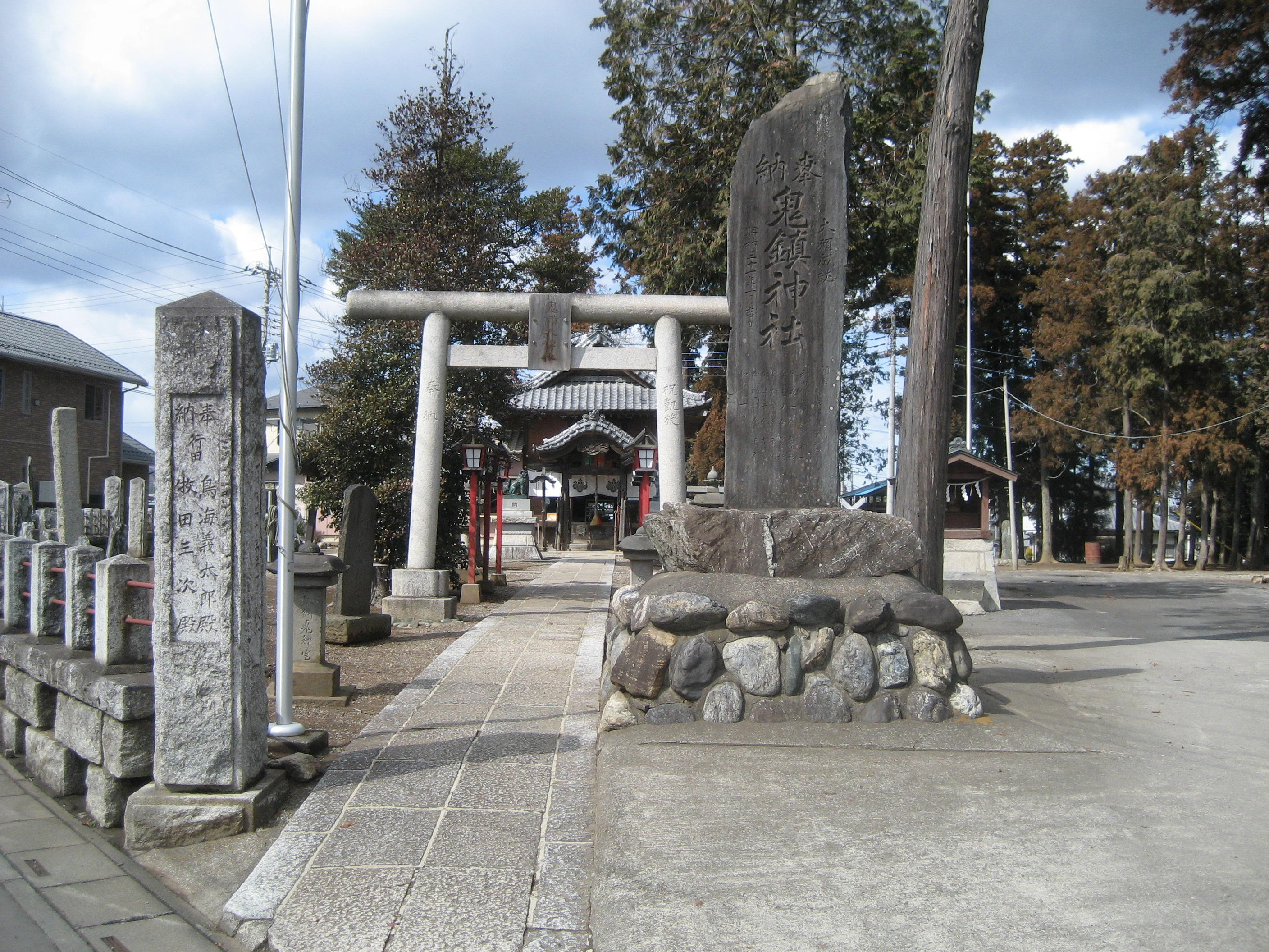 Kijin Shrine (Kijin-jinja) in Ranzan Town, Saitama Prefecture, Japan